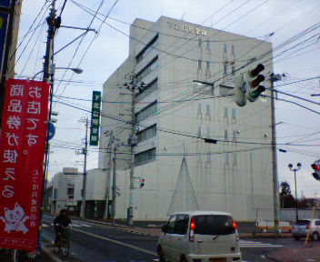 Shimokita Shinkin Bank Head Shop Office